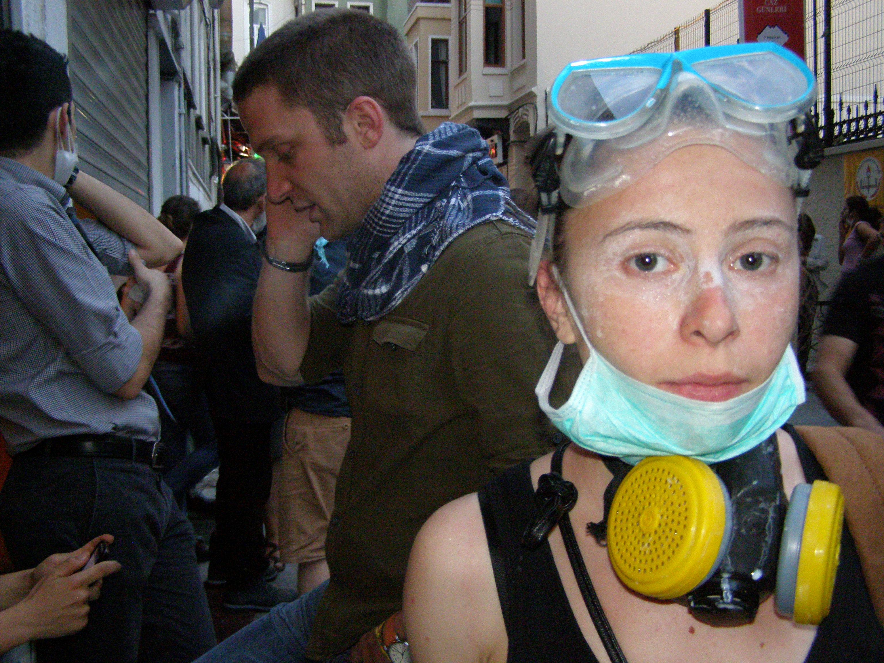 Protestor with residue of eye wash on her face.